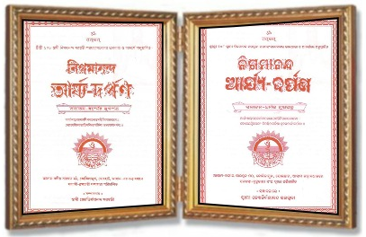 সনাতন ধর্ম পত্রিকা - আর্য দর্পণ, লেখক : স্বামী নিগমানন্দ